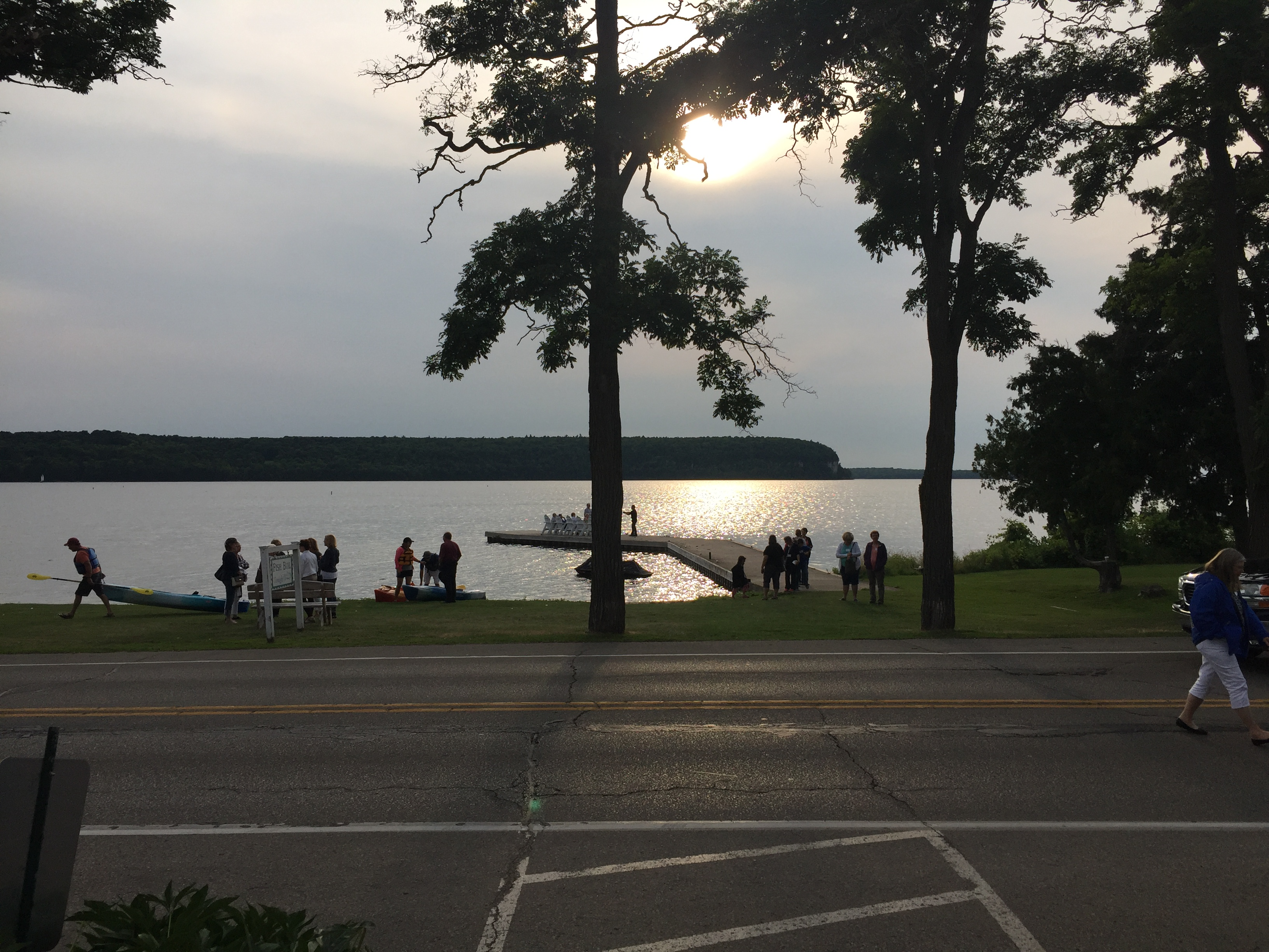 A pier in ephraim